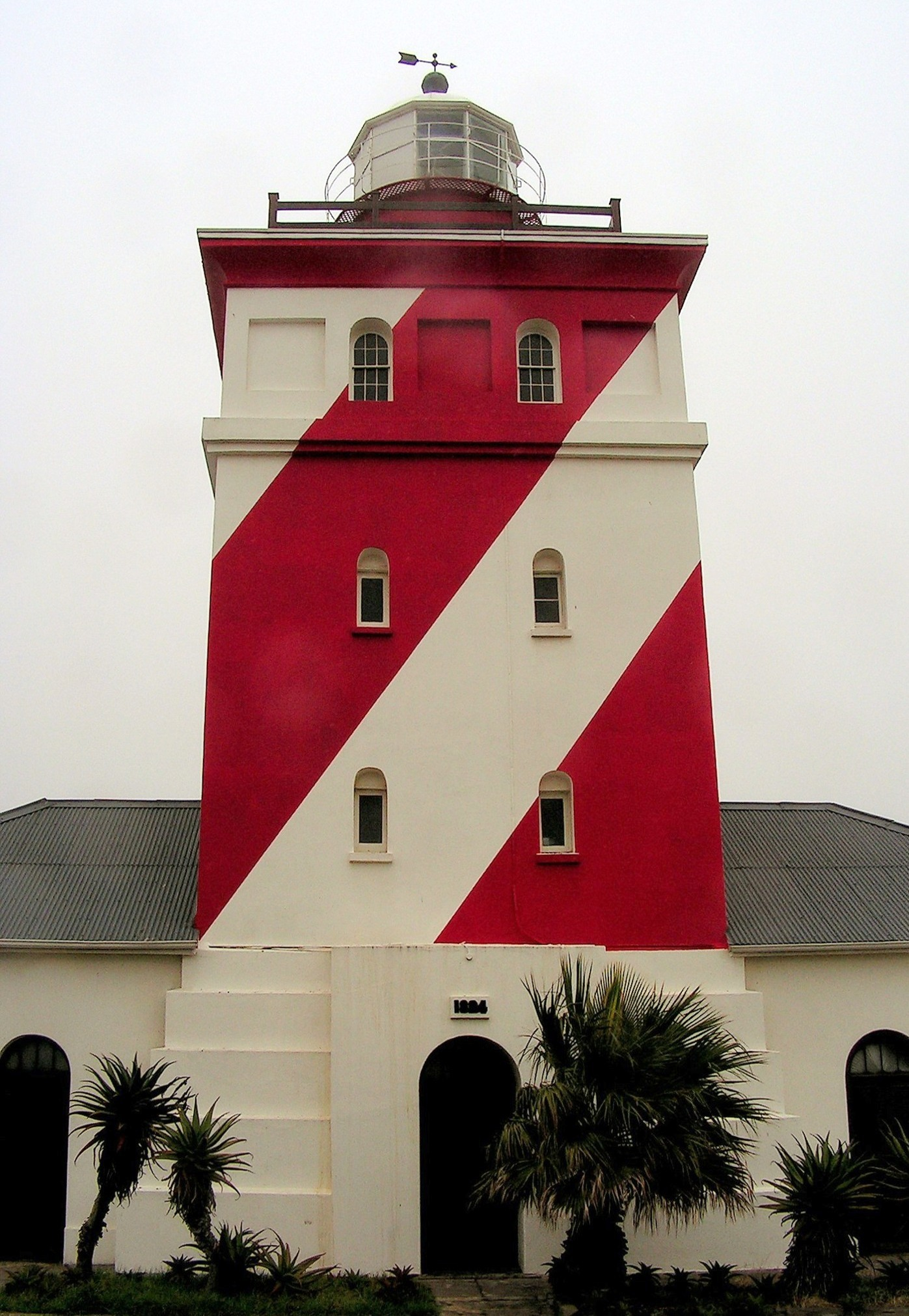 'Greenpoint Lighthouse!' On White at Greenpoint in Cape Town, South Africa